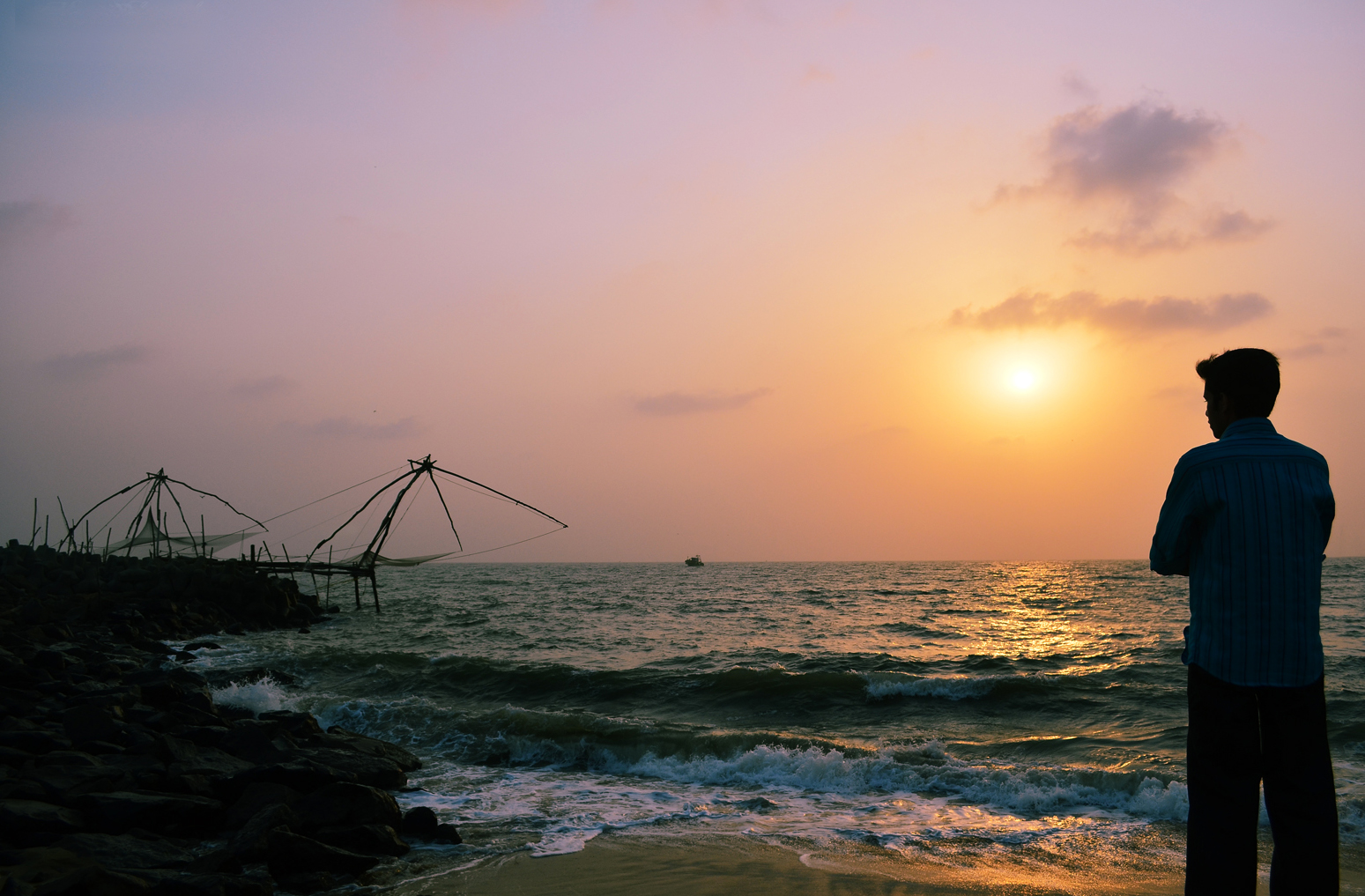 Photo of Azhikode Munakkal beach during sunset